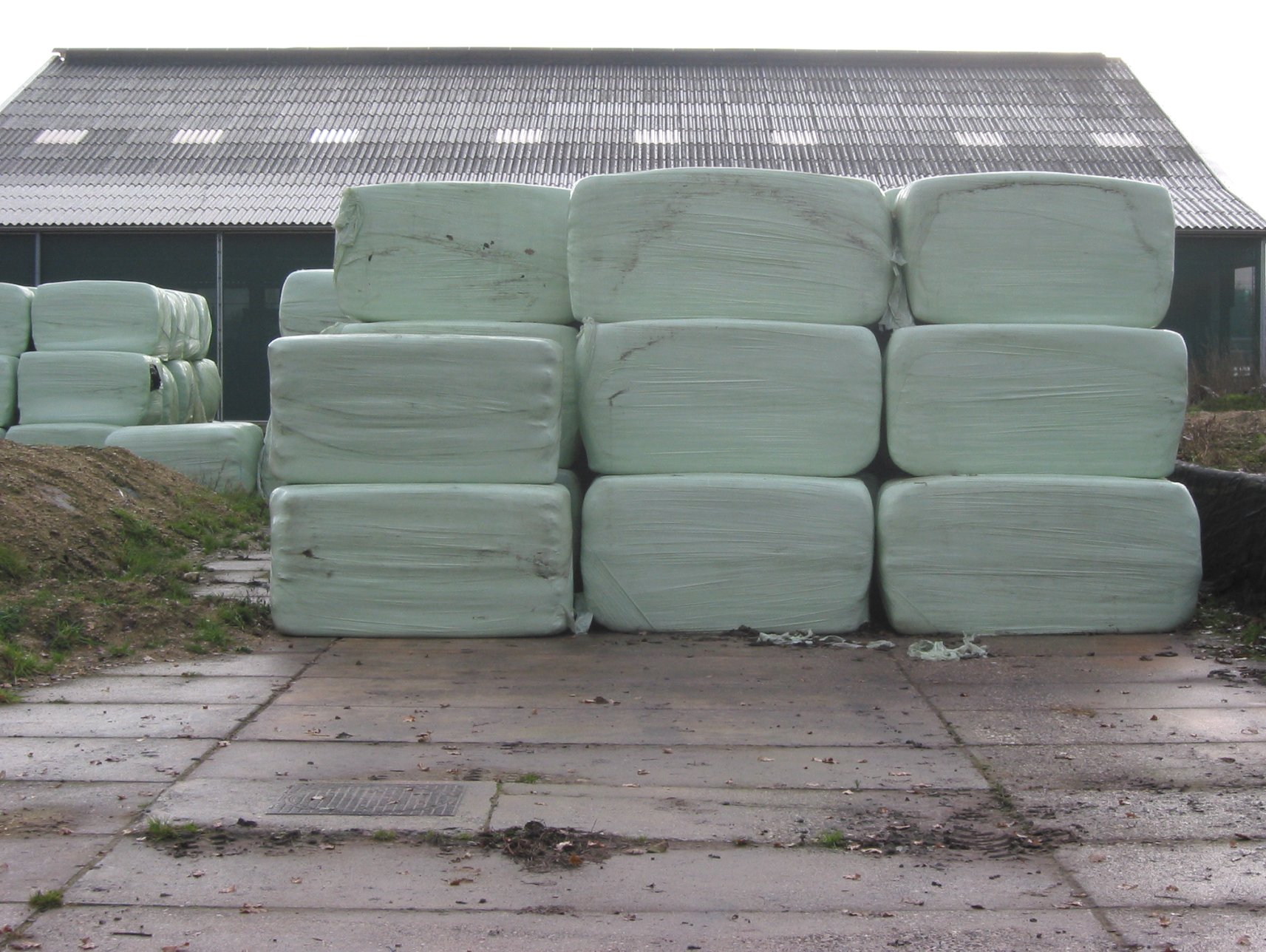 Grass silage bales